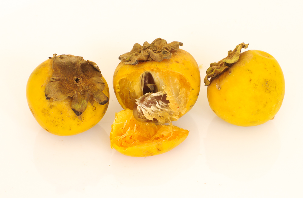 Diospyros mespiliformis fruit.